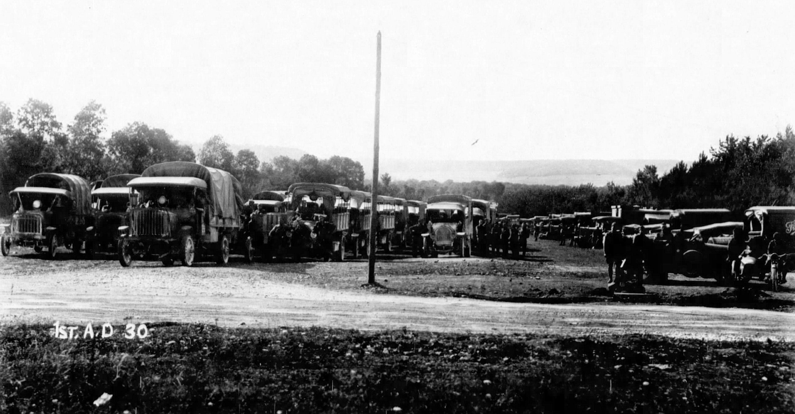 Colombey-les-Belles Aerodrome - 1st Air Depot Motor Transport Trucks Source: Series 1, Paris Headquarters and Supply Section, Volume 30 History of the 1st Air Depot at Colombey-led-Belles, Gorrell's History of the American Expeditionary Forces Air Service, 1917–1919, National Archives, Washington, D.C.